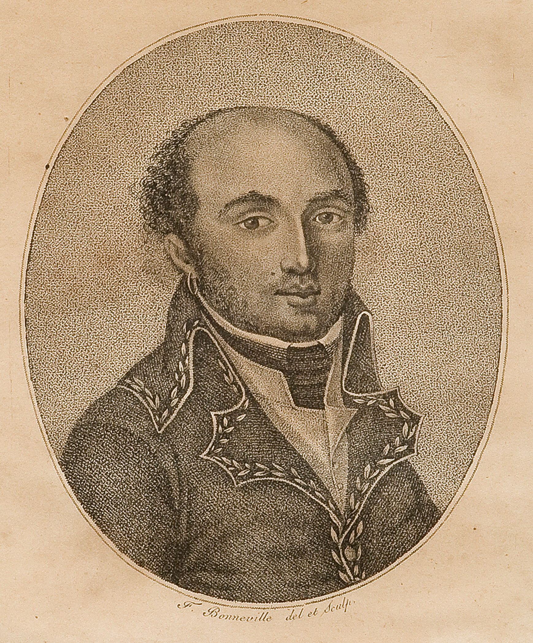 General Alexandre Dumas.